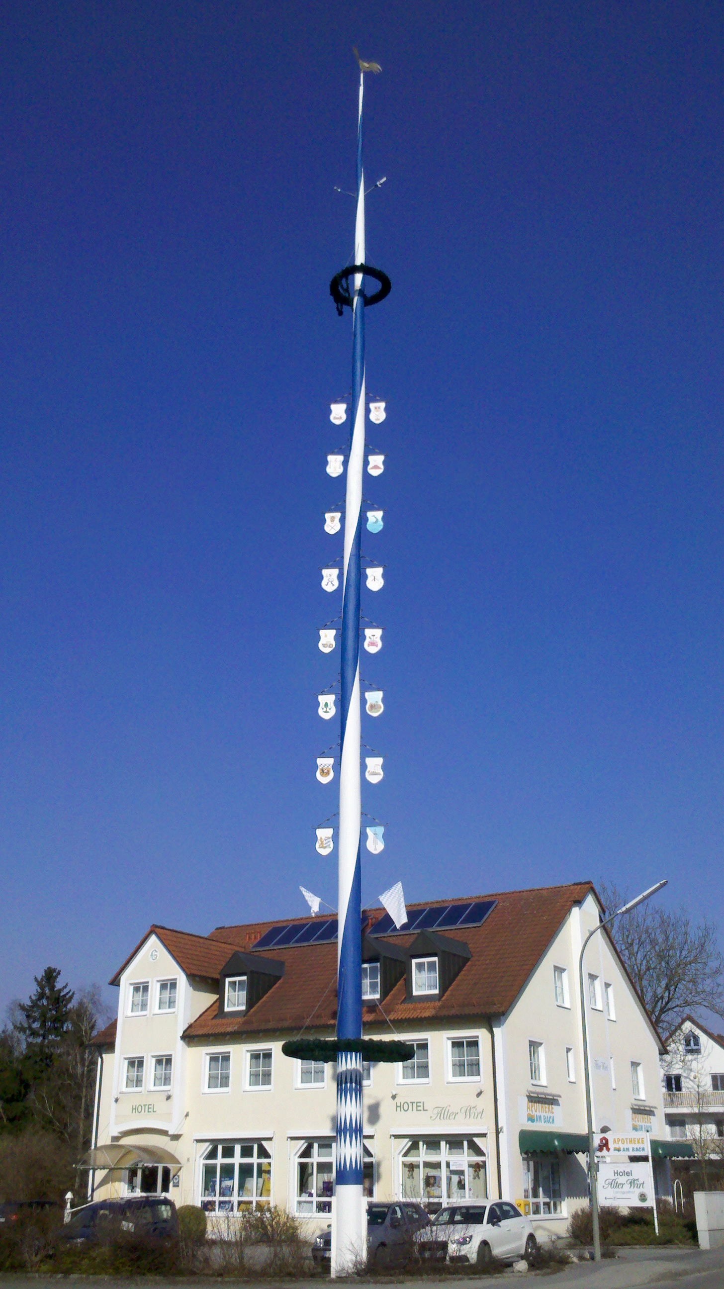 Goldach, Germany, close to Ismaning